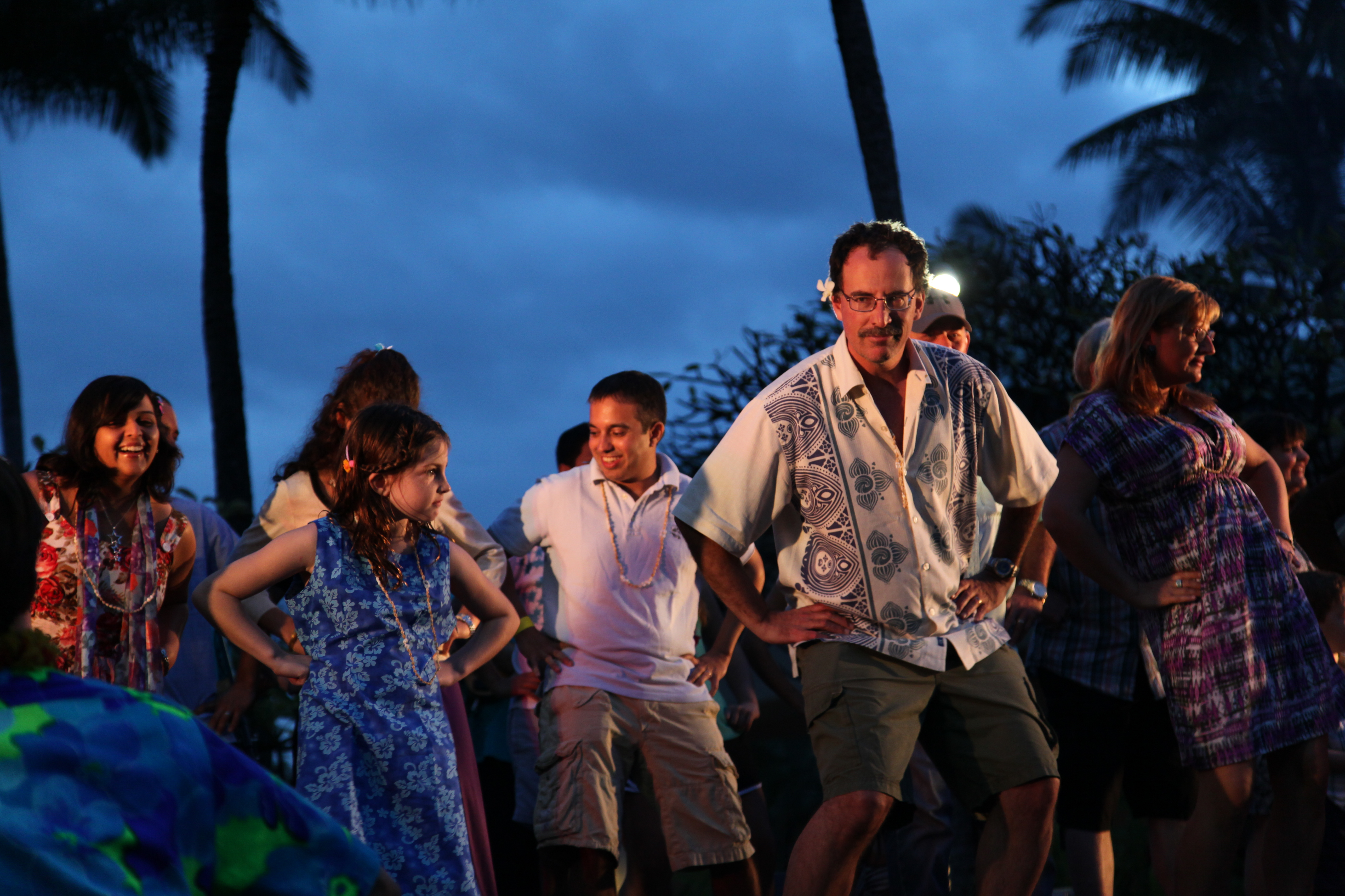 Luaus are amazing